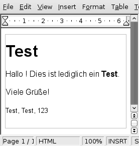 a simple picture of a WYSIWYG-editor (with german language)